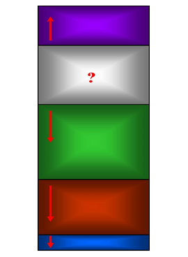 Fig. 4. Decline in employment in three sectors, together with unsustainable increase in employment in GWU sector, opens up a new space (?)